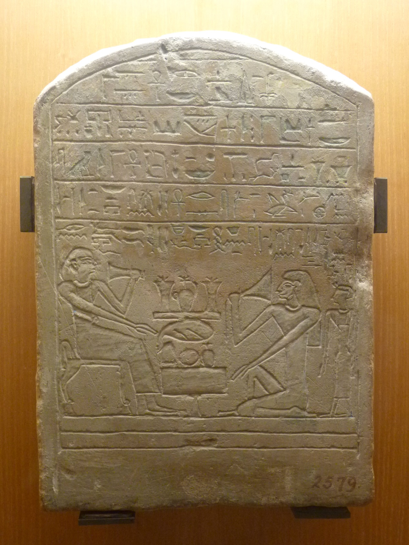 Limestone stele for Senusretankh, vizier under Amenemhat III, 12th dynasty, Middle Kingdom. From the Nizzoli collection, acquired in 1824. Florence, Museo archeologico nazionale, Inv. n. 2579, Room 2.